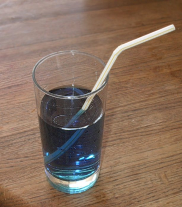 A photo showing refraction of light rays: a soda straw sticking out of a glass of water. It looks broken.